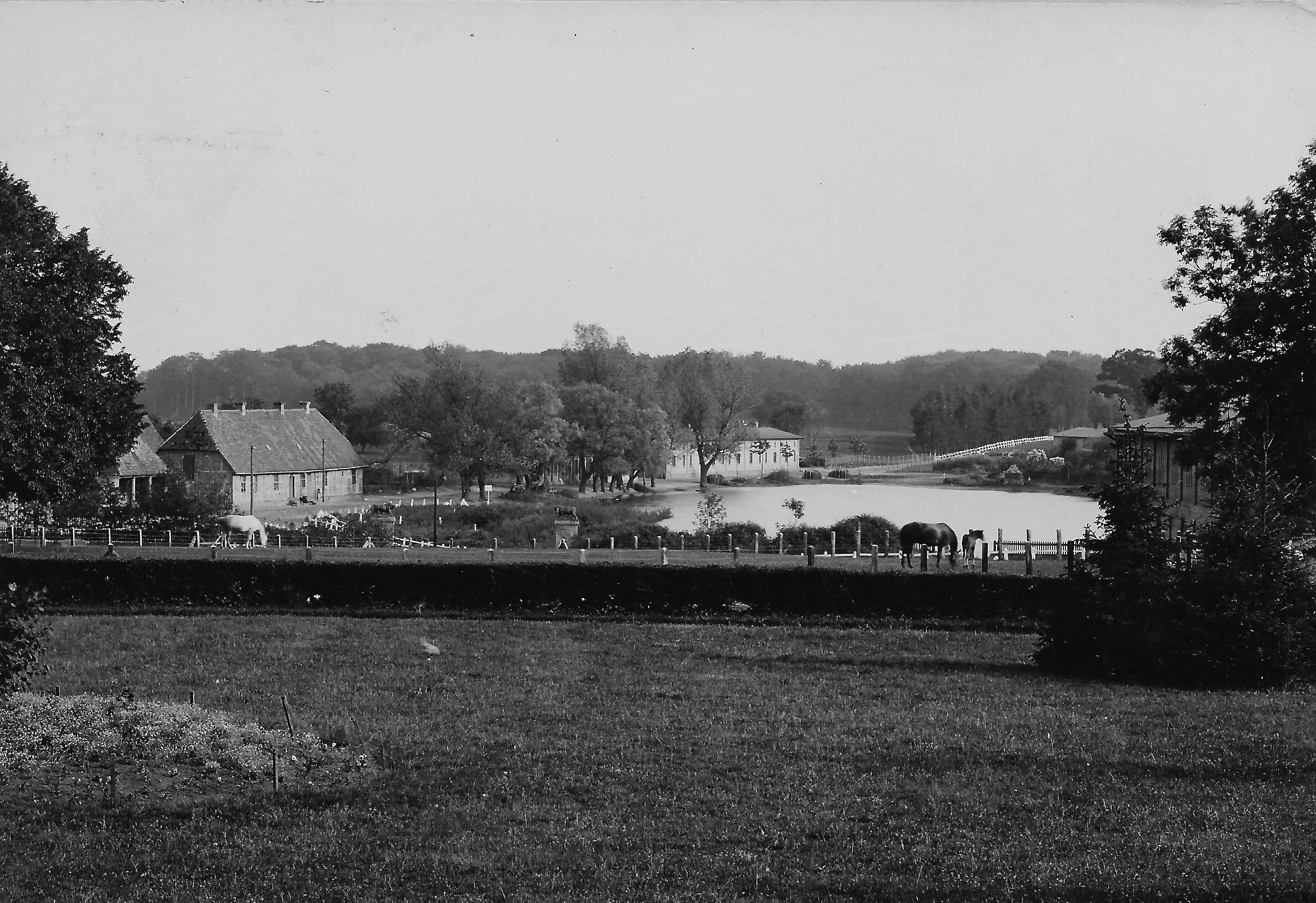 Blick vom Gutshaus in Richtung Dorf. Man sieht im Vordergrund Pferdekoppeln und im Hintergrund Dorfkaten, den See und die Schnitter Kaserne. Am Dorfausgang der Weg nach Liepen. Bild ca. 1900